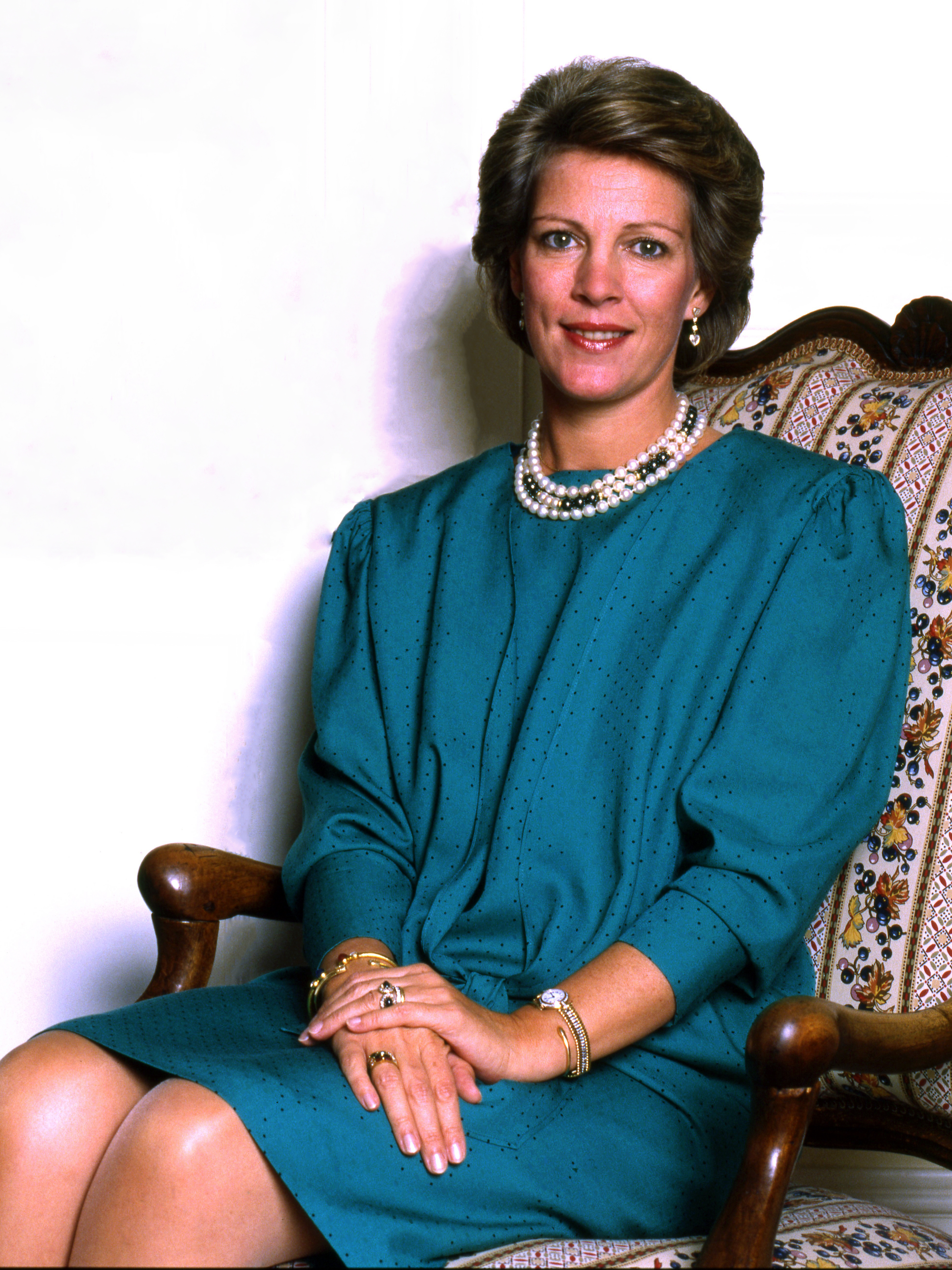 Queen Anne-Marie of Greece